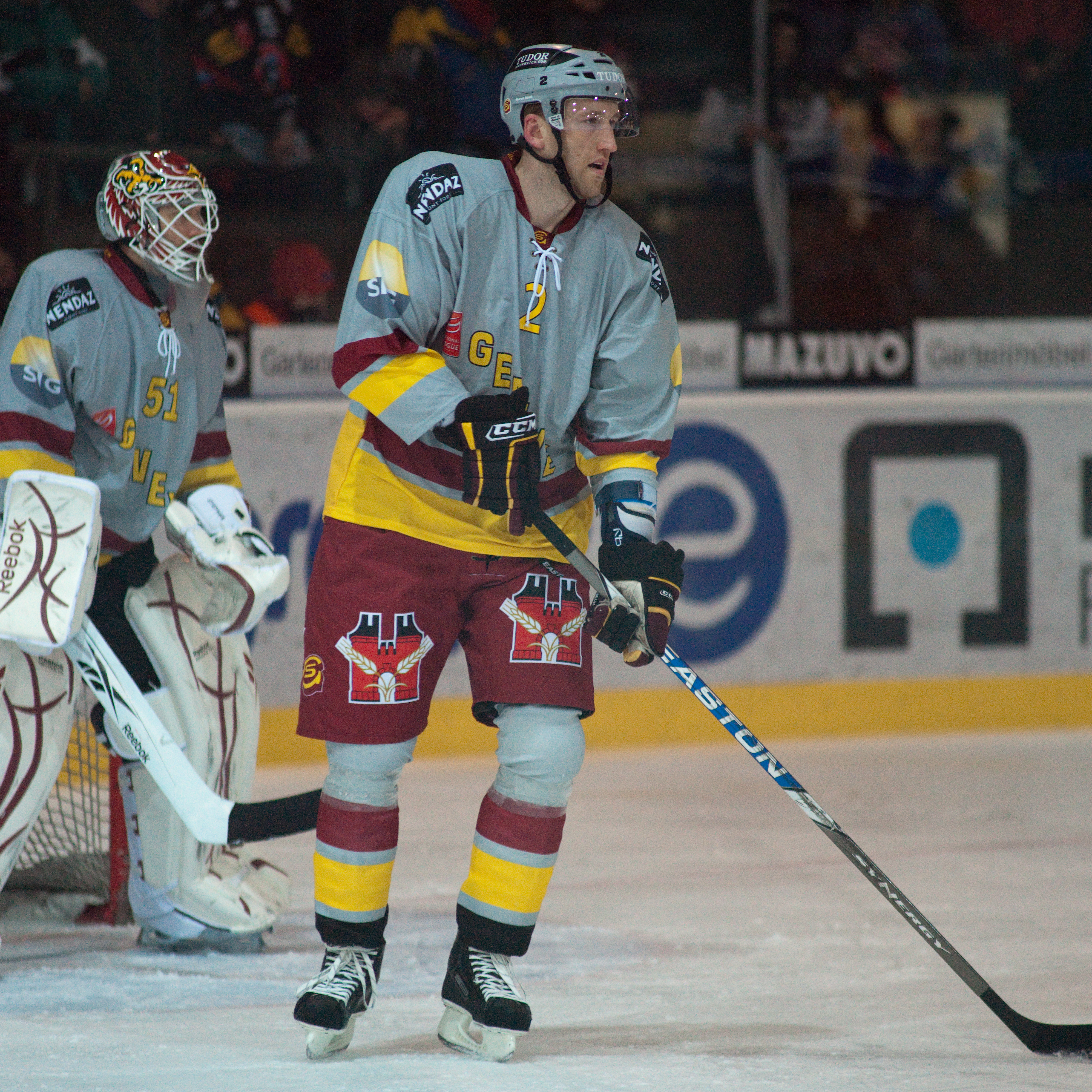 Marek Malik - Fribourg-Gottéron vs. Genève-Servette, 6th March 2010; The making of this document was supported by Wikimedia CH. (Submit your project!) For all the files concerned, please see the category Supported by Wikimedia CH.